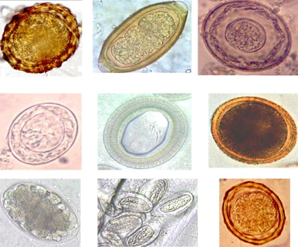 Collage of various helminth eggs: Ascaris fertile (roundworm), Trichuris (whipworm), Hymenolepis diminuta (rat tapeworm), Hymenolepis nana (Dwarf tapeworm), Taenia (tapeworm), Toxocara (roundworm), Necator americanus (hookworm), Enterobius vermicularis (pinworm), Ascaris Lumbricoides.